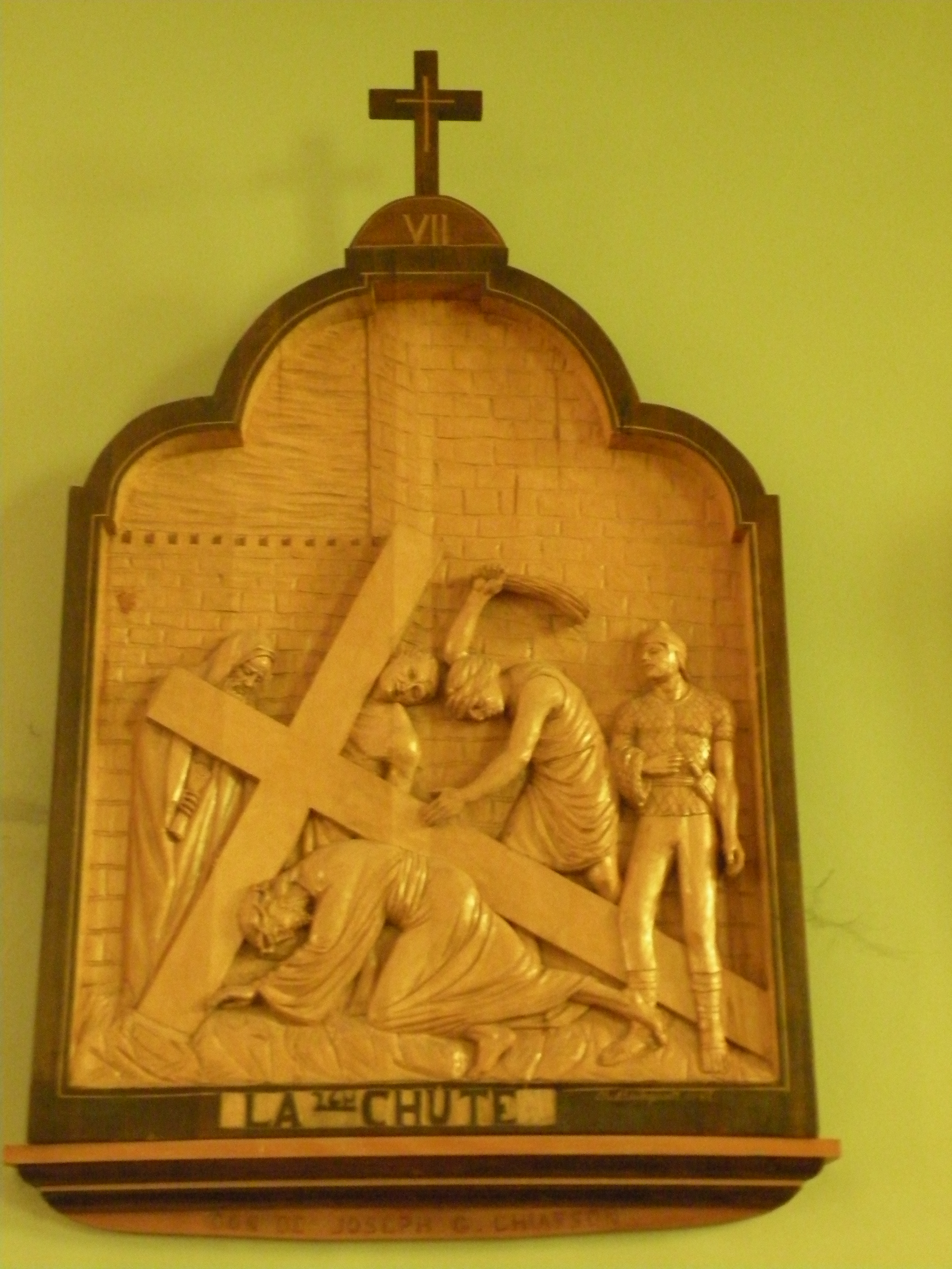 Saint-Pierre-aux-Liens church in Caraquet, New Brunswick, Canada.